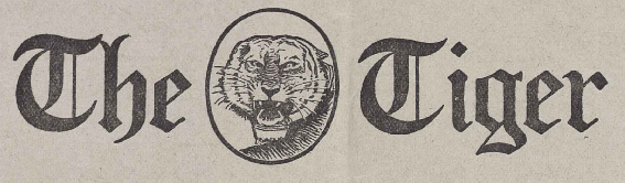 Logo from the student newspaper The Tiger from Clemson University from the May 2, 1917 volume